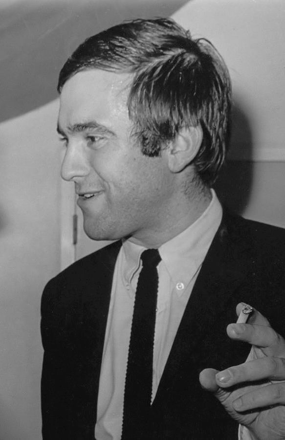 K. Scippers at the Amsterdam Municipal Poetry Awards, 8 December 1967